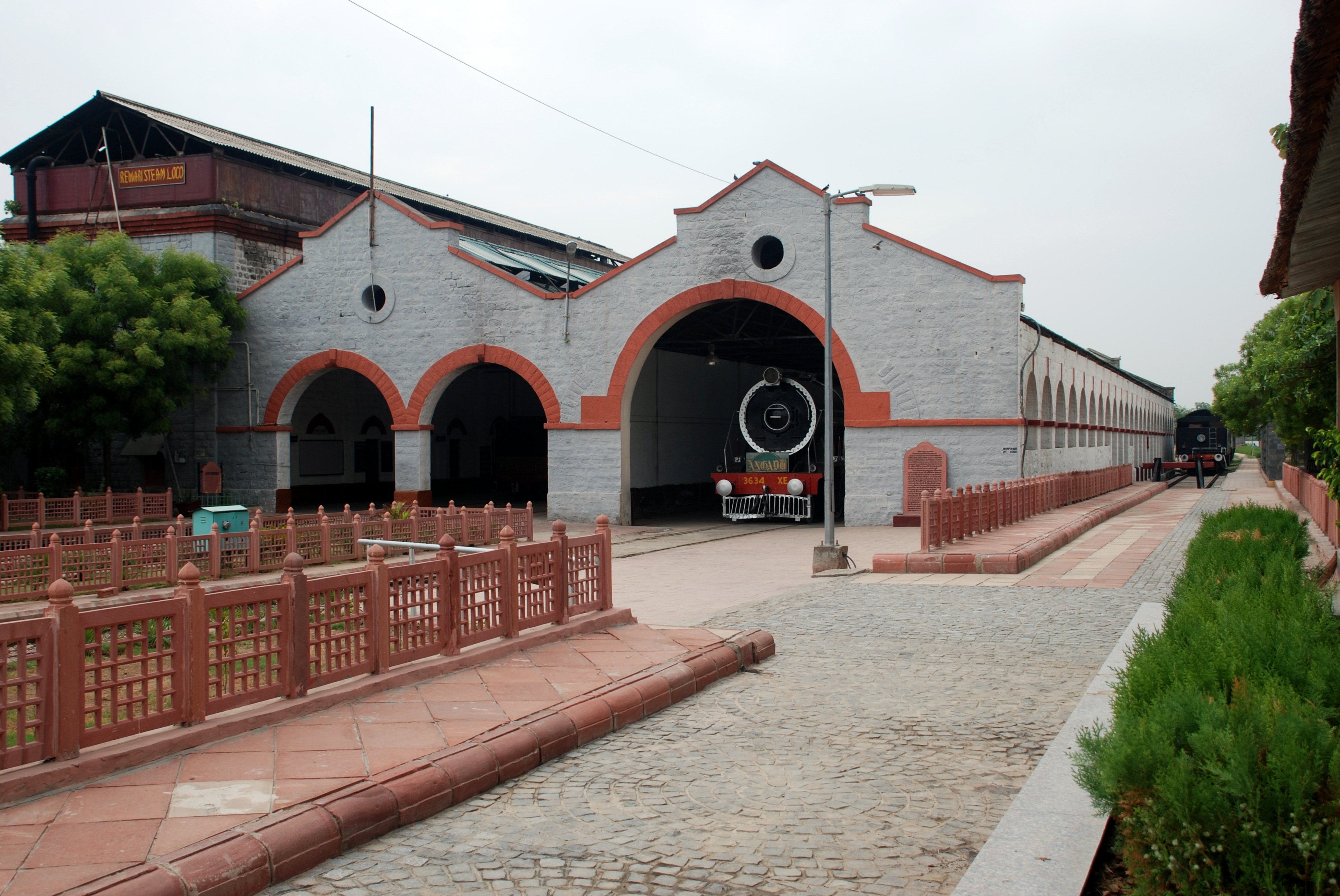 This is the photograph of 'Rewari Railway Heritage Museum'. The loco shed was costructed in 1890s to maintain steam engines of Indian Railways. Presently, museum has display of Broad Gauge Locomotives, models of various railway eguipment etc.